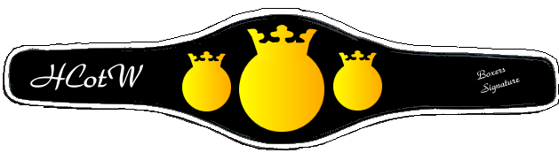 Heavyweight World Champion belt, intended for those who have won one (or more) of the three BIG titles: WBA, WBC and IBF